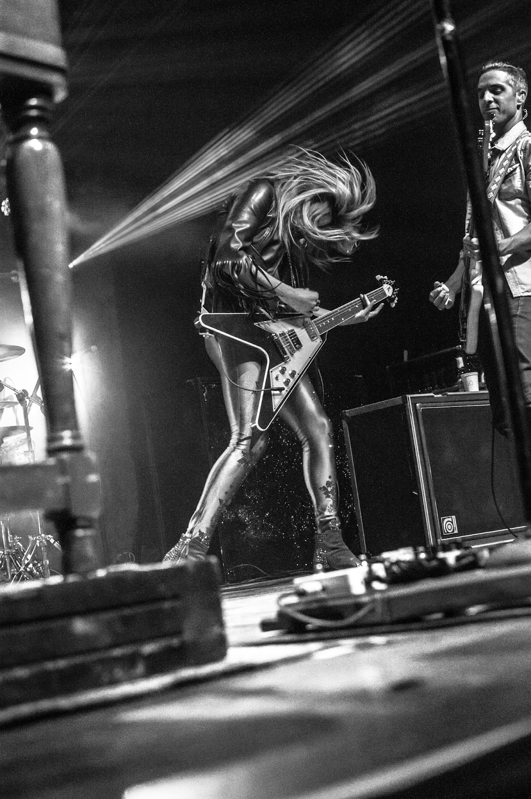 Grace Potter performs at The Pageant in St. Louis, MO.